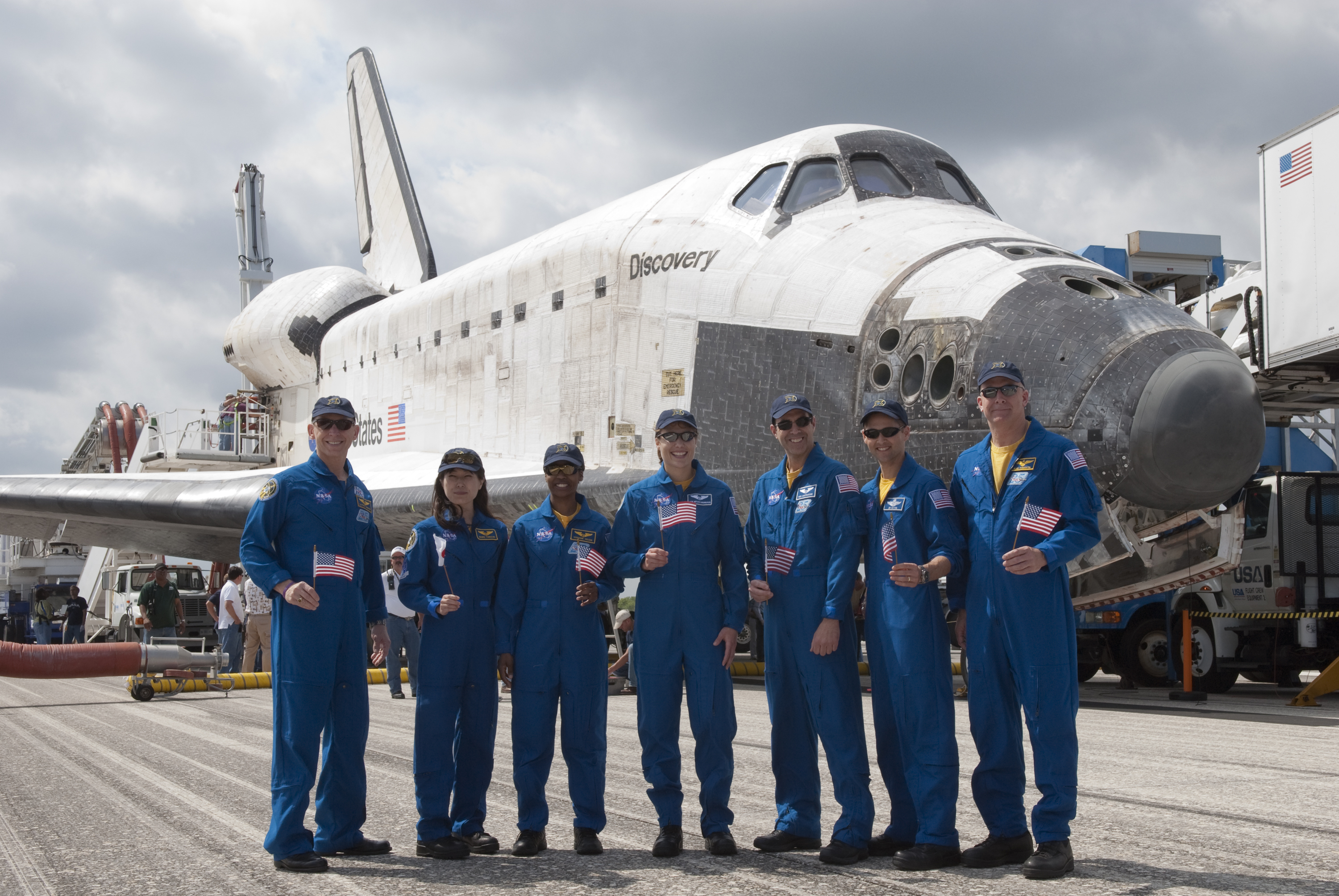 CAPE CANAVERAL, Fla. - At the Shuttle Landing Facility at NASA's Kennedy Space Center in Florida, members the STS-131 crew, each holding a flag from his or her country of origin, pose for a group portrait in front of space shuttle Discovery. From left are Mission Specialists Clayton Anderson, Naoko Yamazaki of the Japan Aerospace Exploration Agency, Stephanie Wilson, Dorothy Metcalf-Lindenburger and Rick Mastracchio; Pilot James P. Dutton Jr.; and Commander Alan Poindexter. Discovery landed on Runway 33 after 15 days in space, completing the more than 6.2-million-mile STS-131 mission on orbit 238. Main gear touchdown was at 9:08:35 a.m. EDT followed by nose gear touchdown at 9:08:47 a.m. and wheelstop at 9:09:33 a.m. The seven-member STS-131 crew carried the multi-purpose logistics module Leonardo, filled with supplies, a new crew sleeping quarters and science racks that were transferred to the International Space Station's laboratories. The crew also switched out a gyroscope on the station’s truss, installed a spare ammonia storage tank and retrieved a Japanese experiment from the station’s exterior. STS-131 is the 33rd shuttle mission to the station and the 131st shuttle mission overall. For information on the STS-131 mission and crew, visit